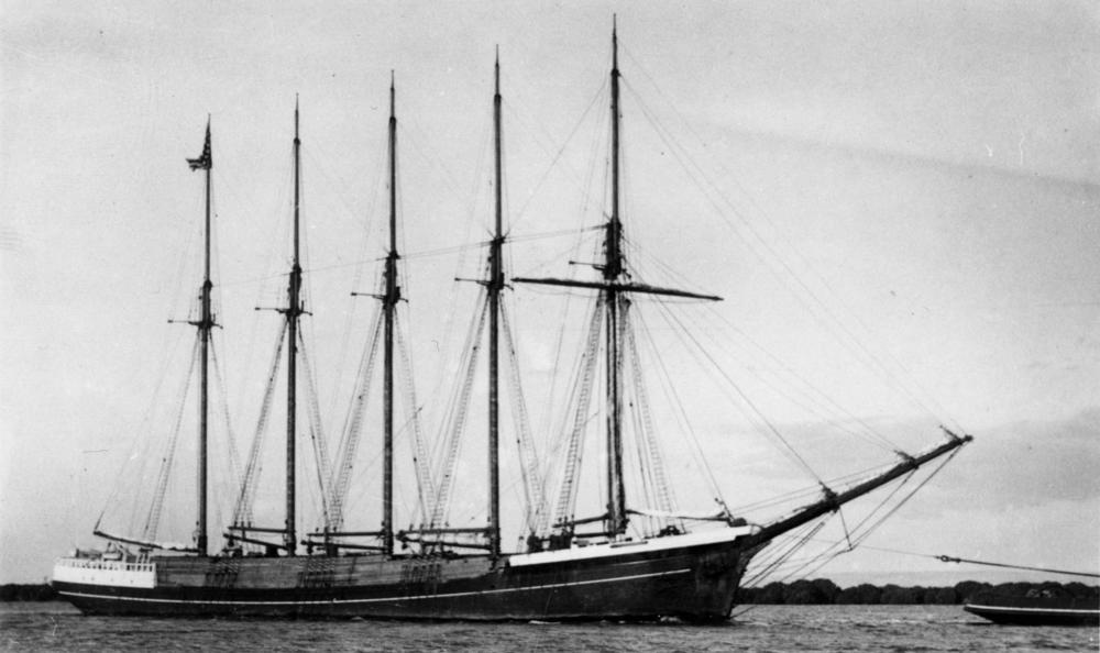 K.V. Kruse (ship) K. V. Kruse was built by the shipbuilding firm, Kruse and Banks in North Bend, Oregon, USA.